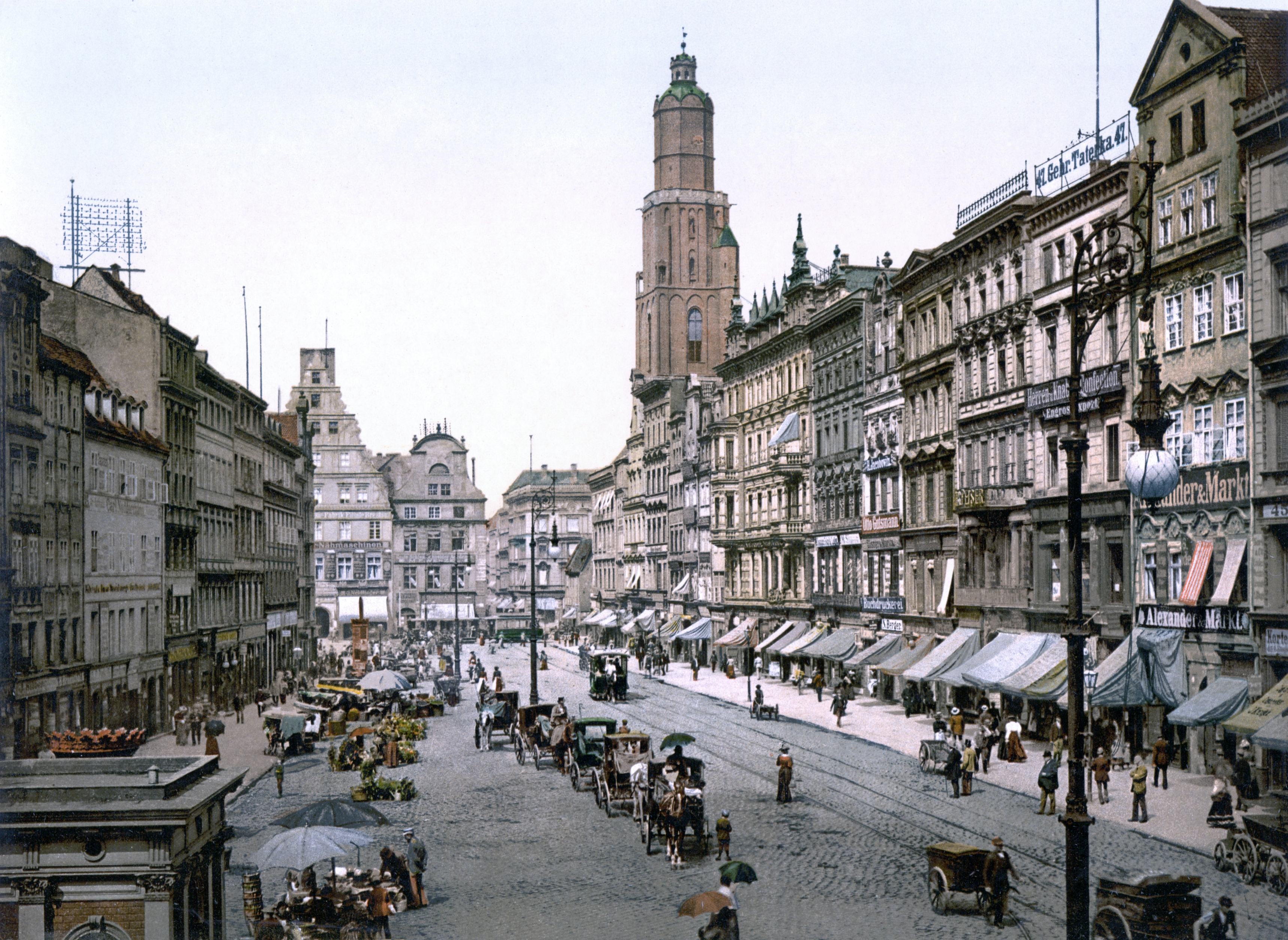 Market Square in Breslau, Germany (now Wrocław, Poland) ca. 1890-1900. View from the East.